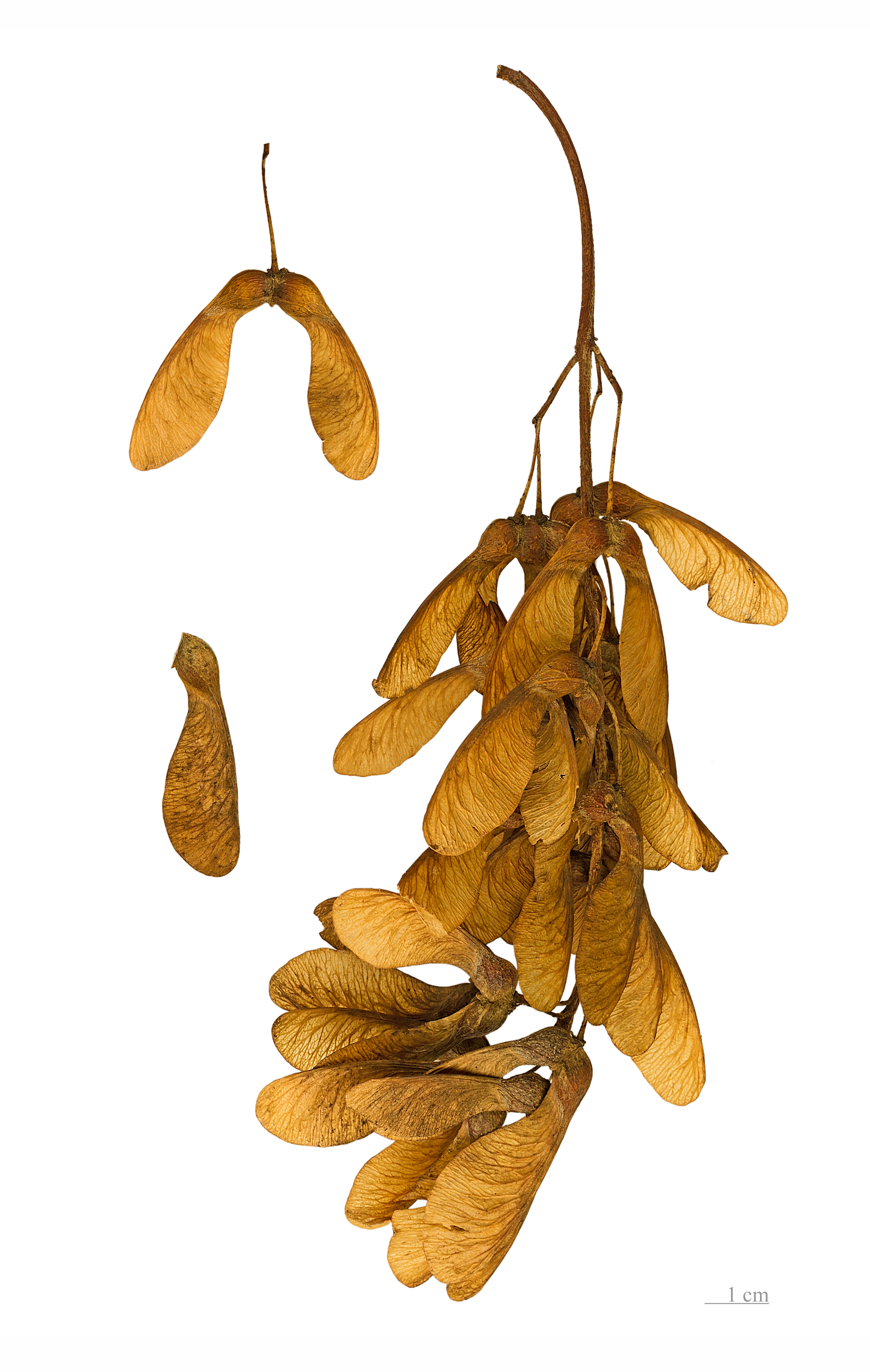 sycamore maple, Samaras